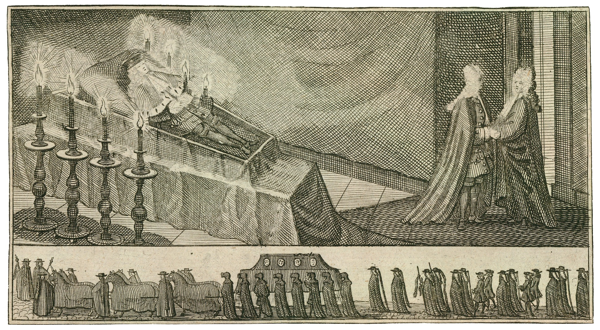 Funeral of Johann Christian Schamberg